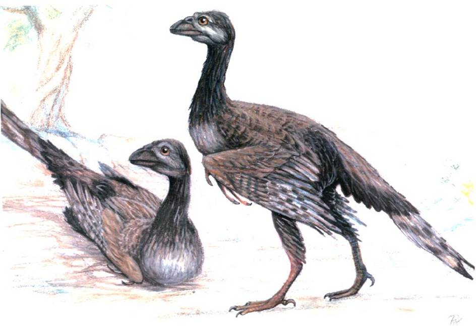 Enantiornis